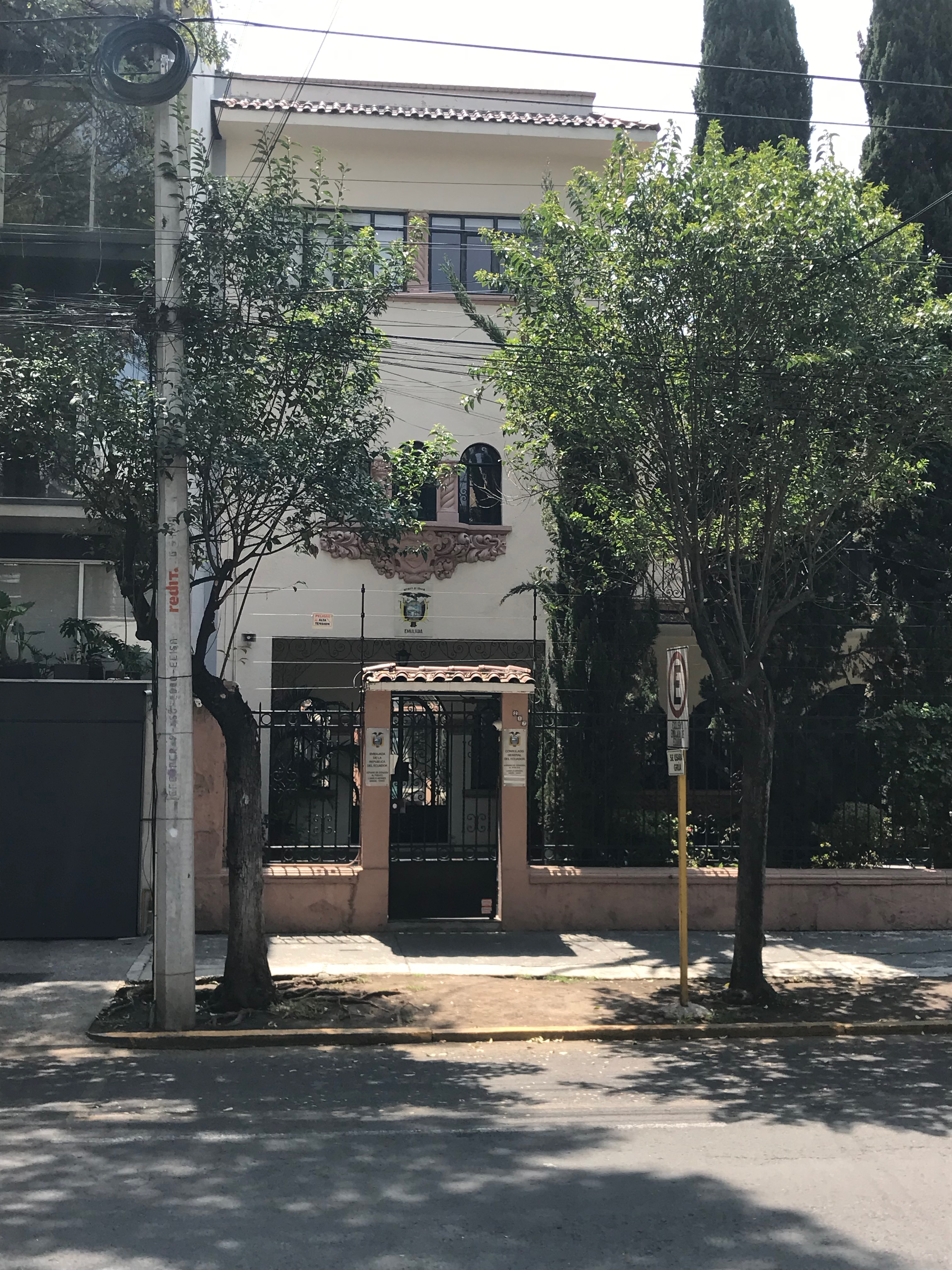 Embassy of Ecuador in Mexico City